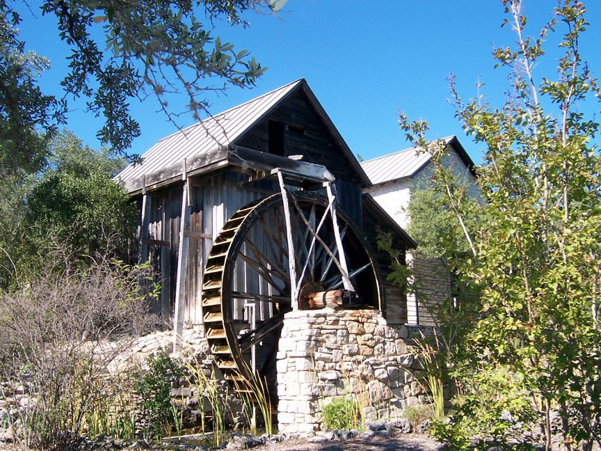 Anderson Mill (reproduction). Travis County Texas. The Anderson Mill was built in the 1850s as a corn mill and cotton gin. It was converted to a gunpowder mill for the Civil War. After the war it resumed as corn, wheat, and cotton processing. It was bought by Pioneer Mills of San Antonio and idled at the turn of the century. This reproduction was built in 1965 in Anderson Mill, Texas when the original site was flooded by the Lake Travis reservoir. I took this picture.